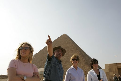 Dr. Zahi Hawass, secretary general of the Supreme Council of Antiquities, shows Liz Cheney, left, Laura Bush and Anita McBride, chief of staff for Mrs. Bush, right, the Giza Pyramids and a new excavation site in Giza, Egypt, Monday, May 23, 2005. White House photo by Krisanne Johnson